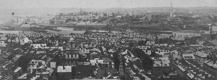 Overview of West End, Boston.